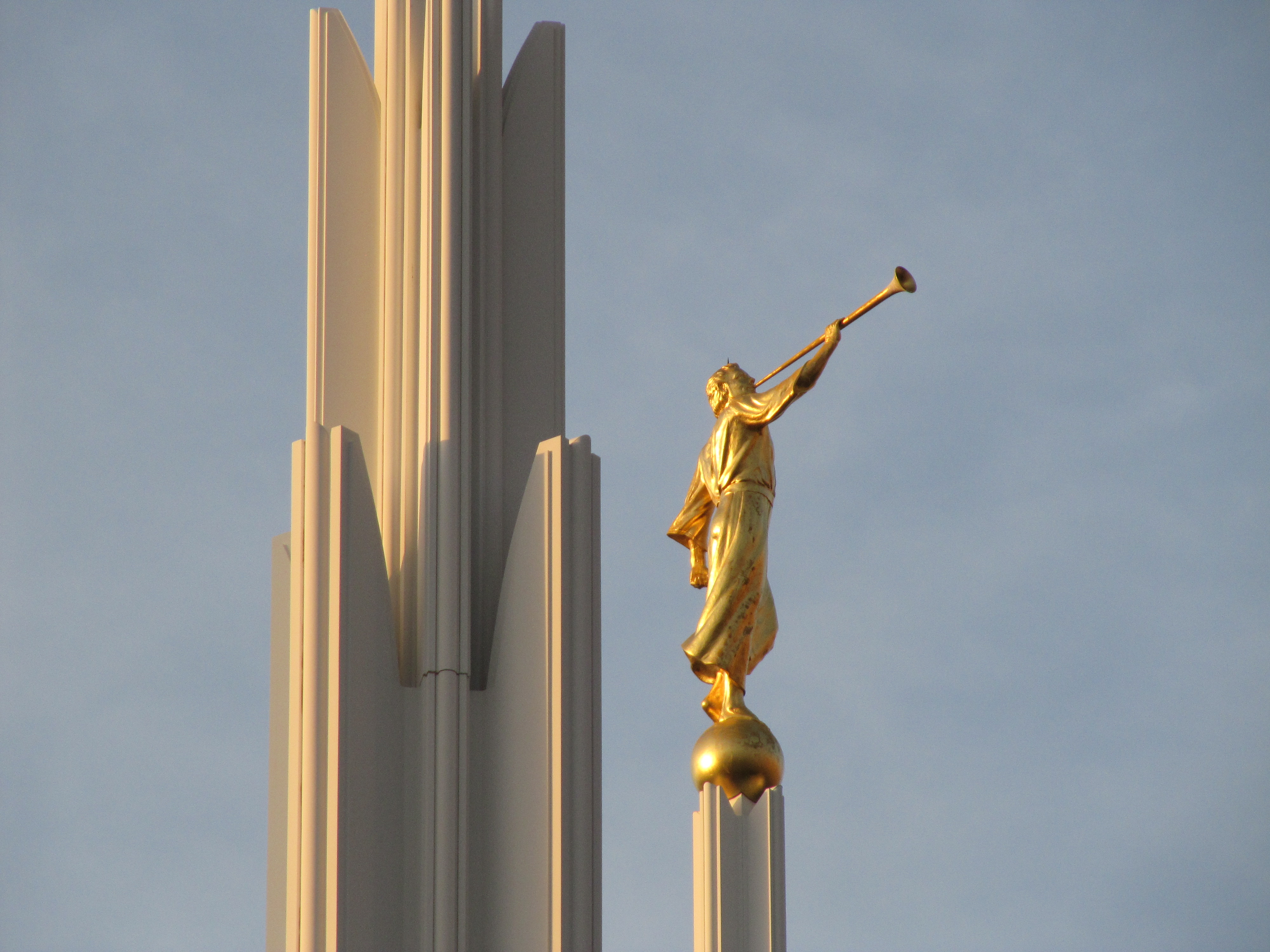 The angel Moroni statue atop the Las Vegas Nevada Temple of The Church of Jesus Christ of Latter-day Saints.